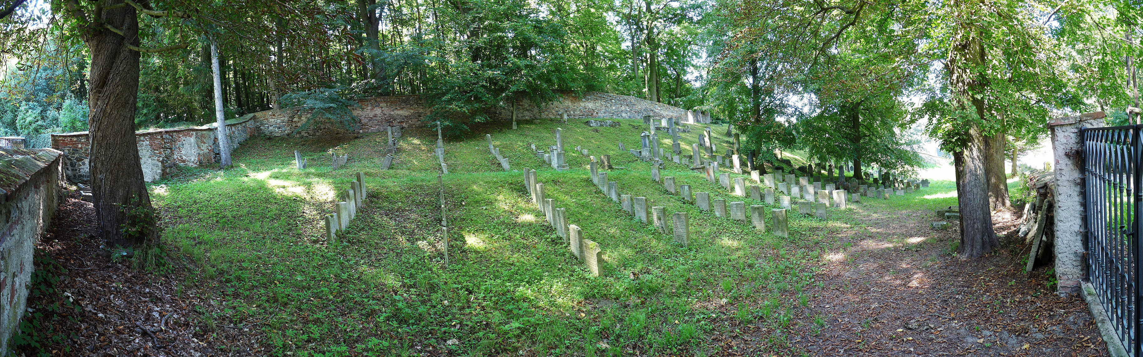 Jewish cemetery in the town of Jemnice, Třebíč District, Czech Republic.